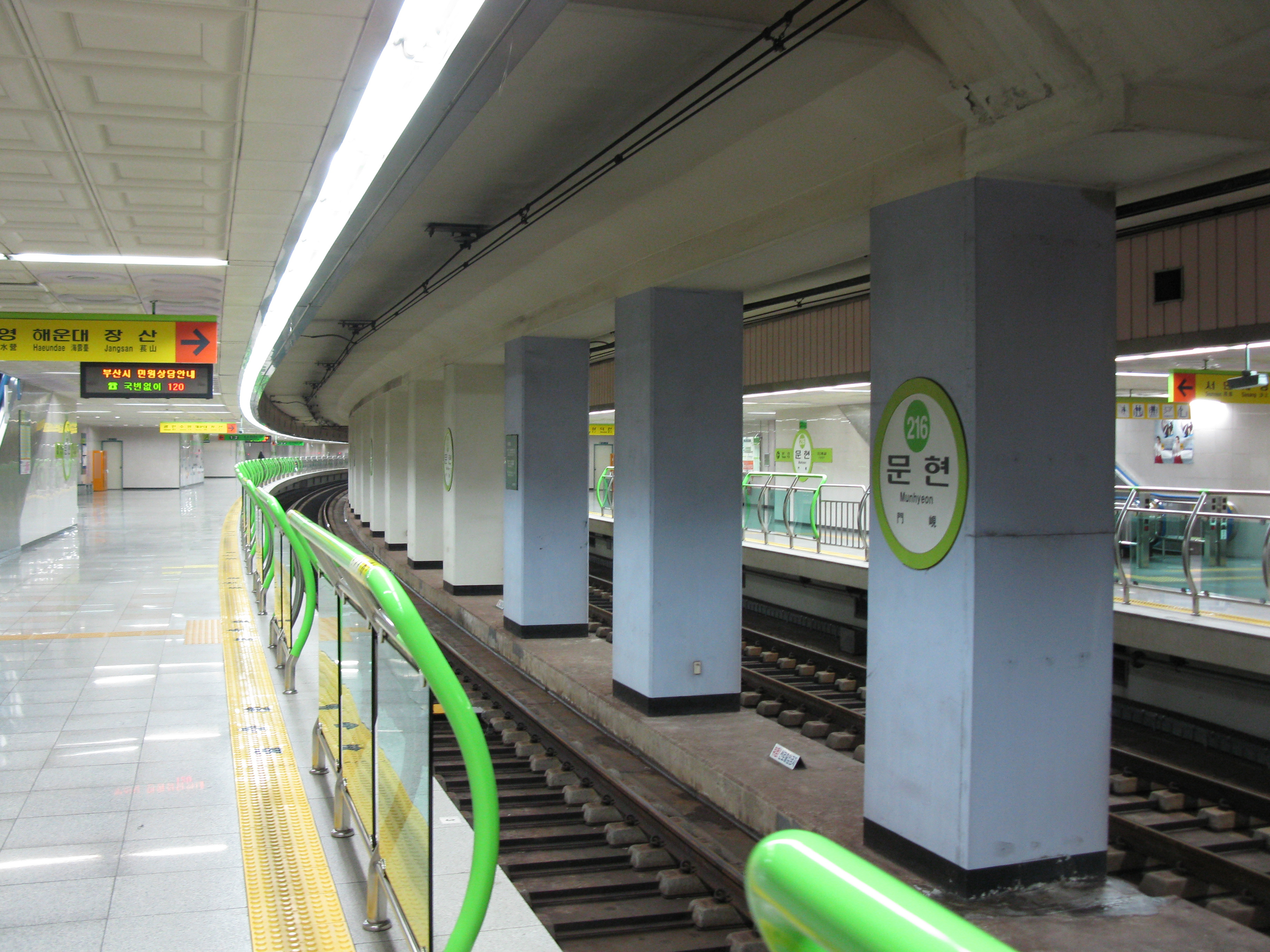 Munhyeon Station platform (Busan Subway Line 2)